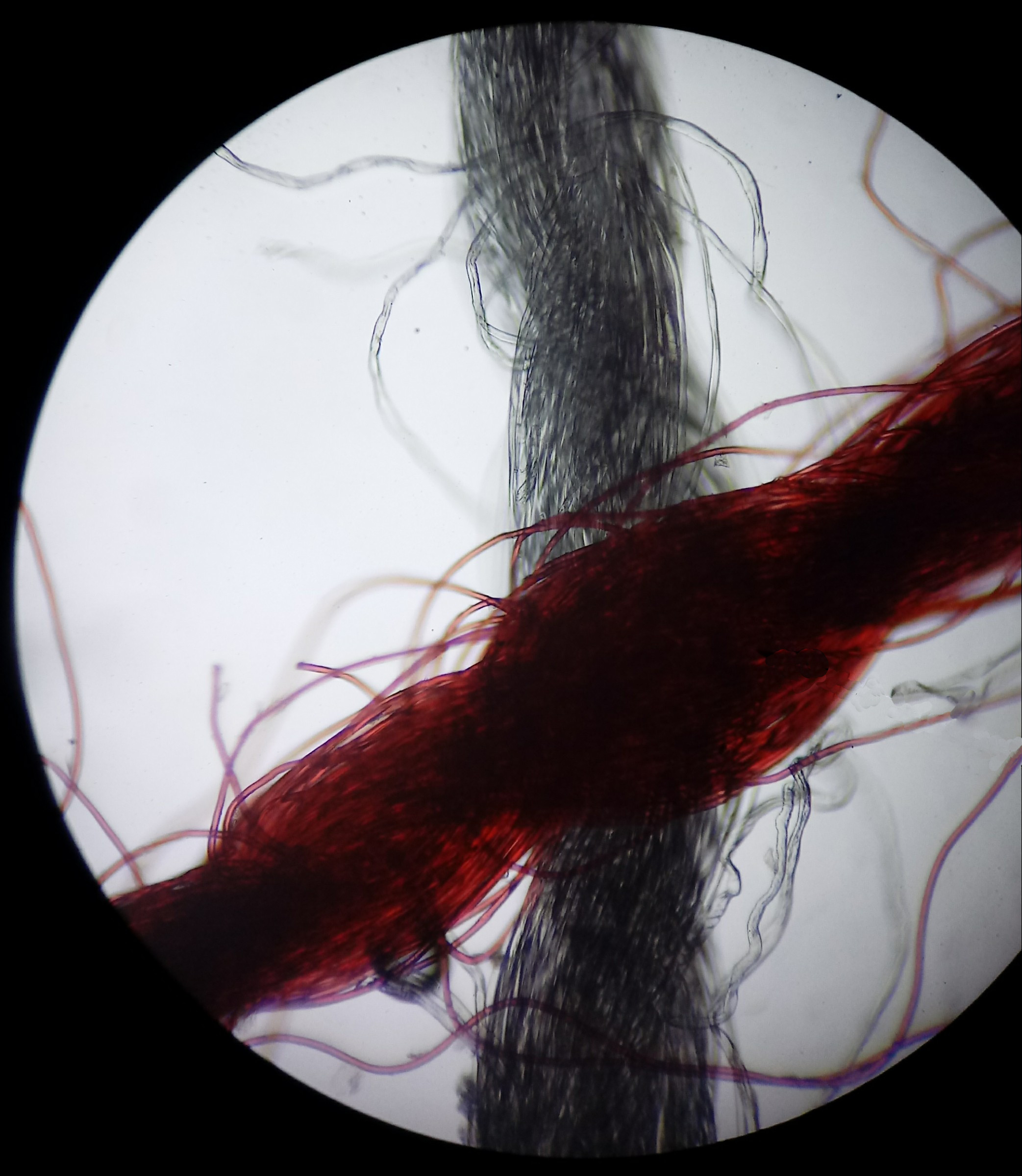 Two strings under a standard light microscope at a magnification of 40 times